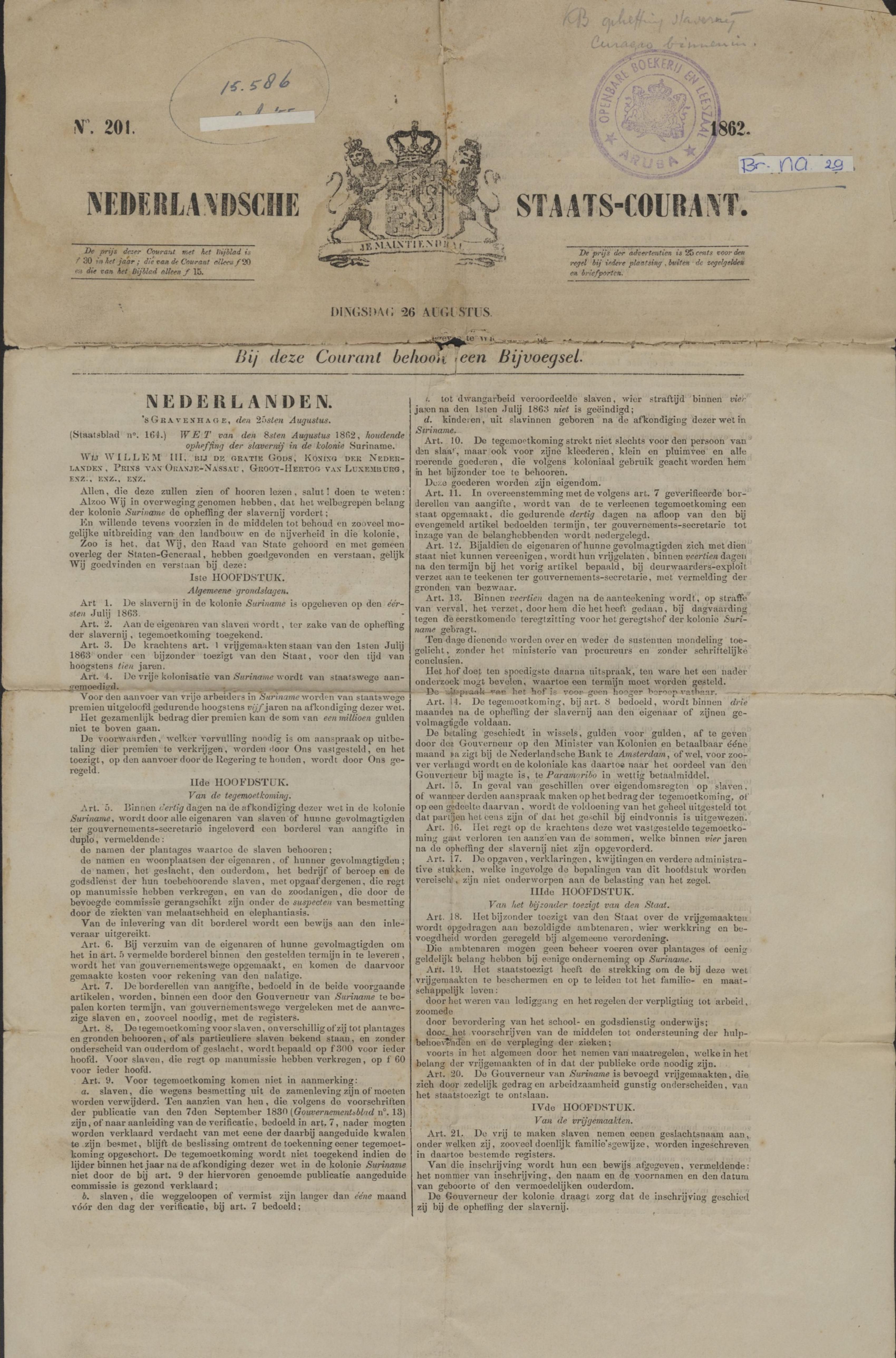 Dutch State Newspaper (August 26, 1862) Law on the Abolition of Slavery in the colony of Suriname Law on the Abolition of Slavery on the islands of Curacao, Bonaire, Aruba, St. Eustatius, Saba and St. Martin (Dutch part). From the collection of Biblioteca Nacional Aruba, the National Library of Aruba